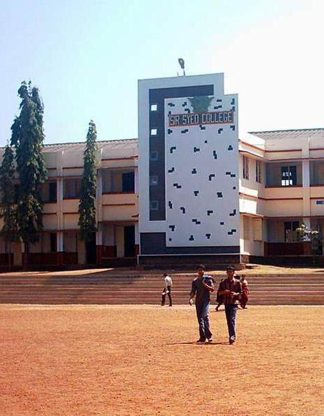 Dr.Anil Vallathol, Vice Chancellor, Malayalam University, Tirur can be seen in the background walking away with a roll of documents. When this photograph was taken in 2014, he was a lecturer in the Malayalam department of this college